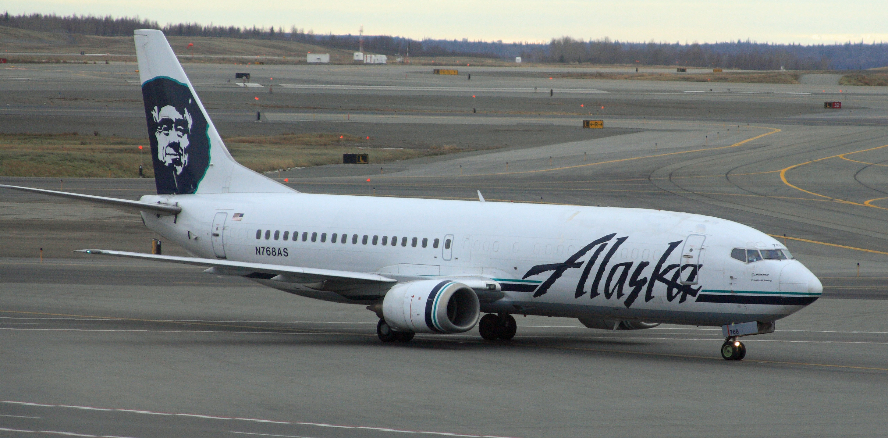 Alaska Airlines Boeing 737. This photo was taken at Anchorage Airport in November 2009. It was a busy time at the airport with a lot of cargo jets coming in - not a bad way to kill an hour.